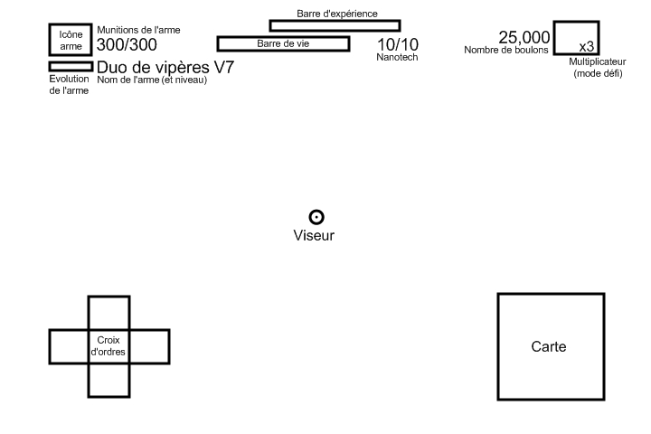 Simplified diagram of the HUD in the video game Ratchet: Gladiator.